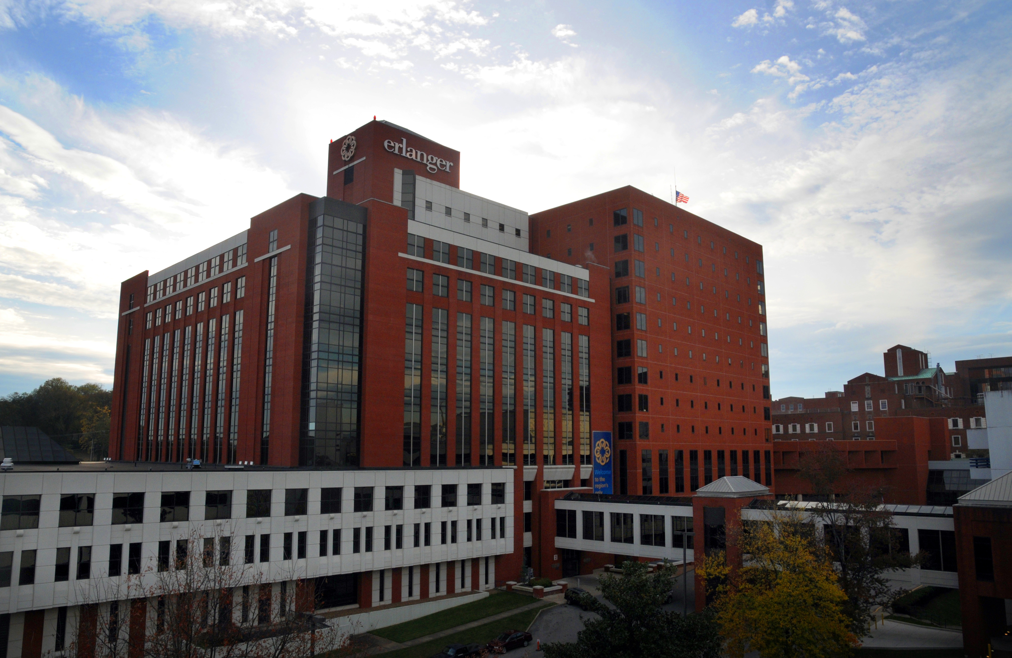 Erlanger Hospital Baroness Campus